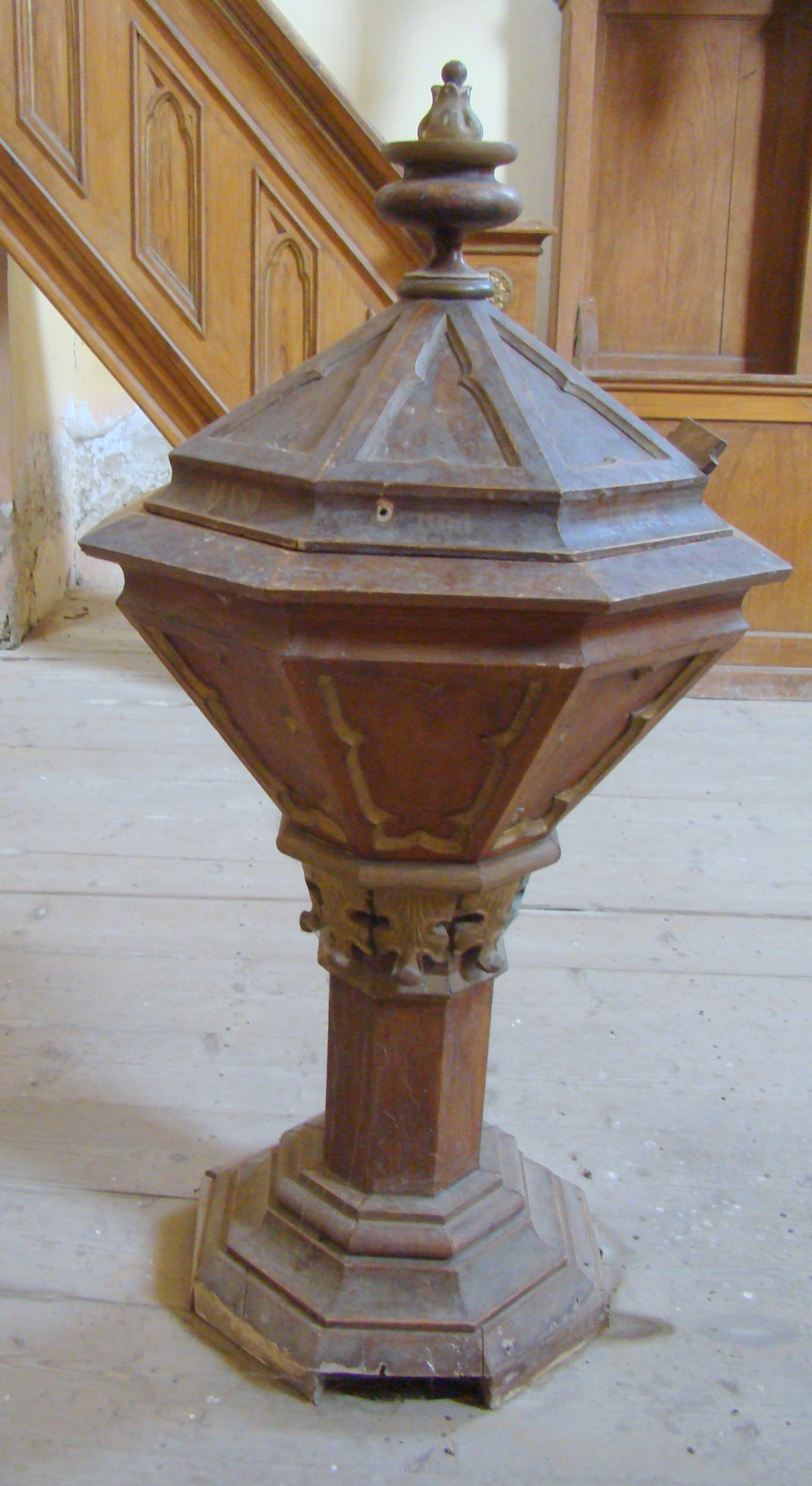 Lutheran church in Sântioana, Mureș County, Romania